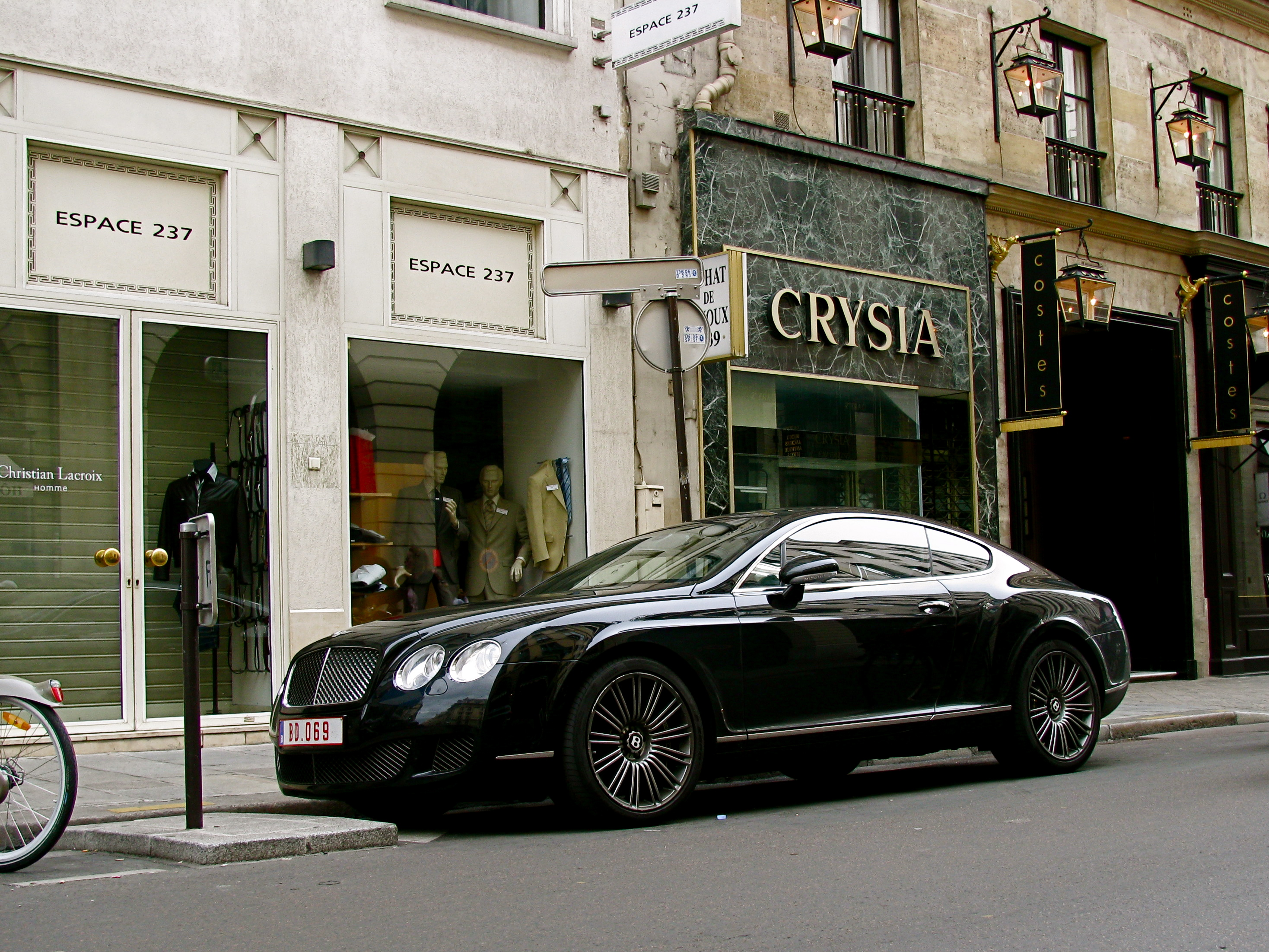 Bentley Continental GT Speed